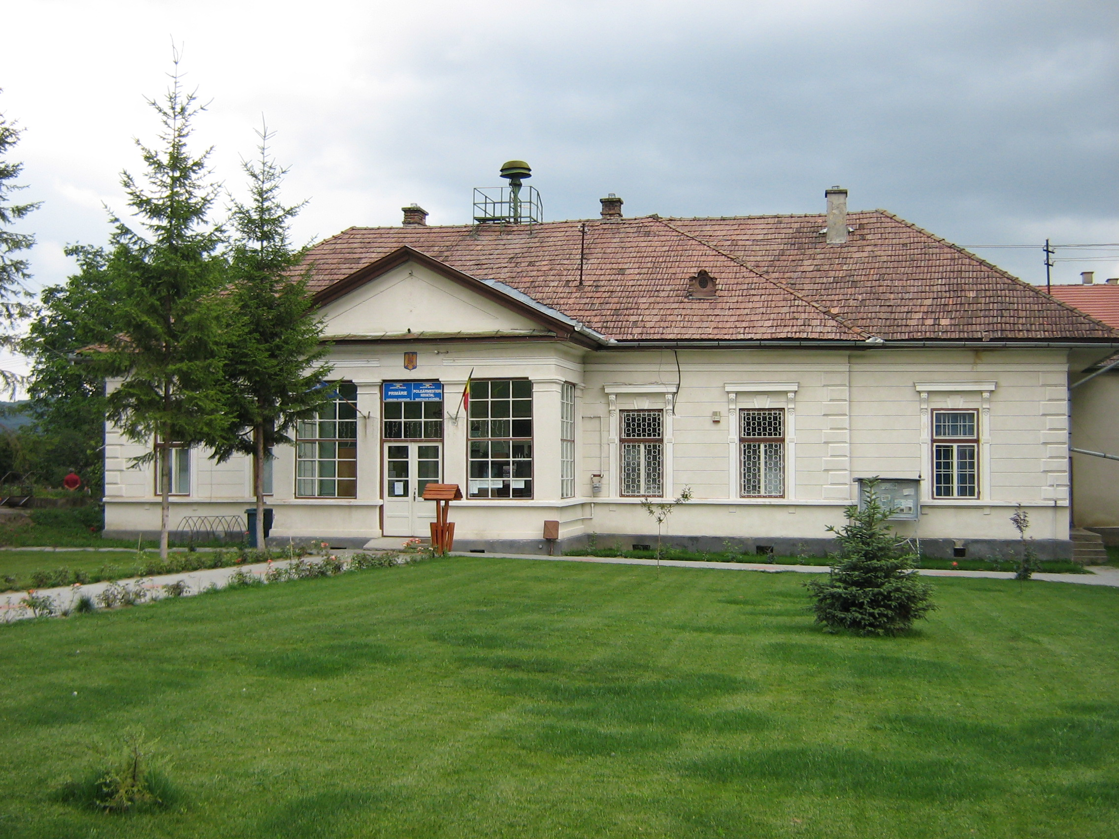 Village hall in Ghindari